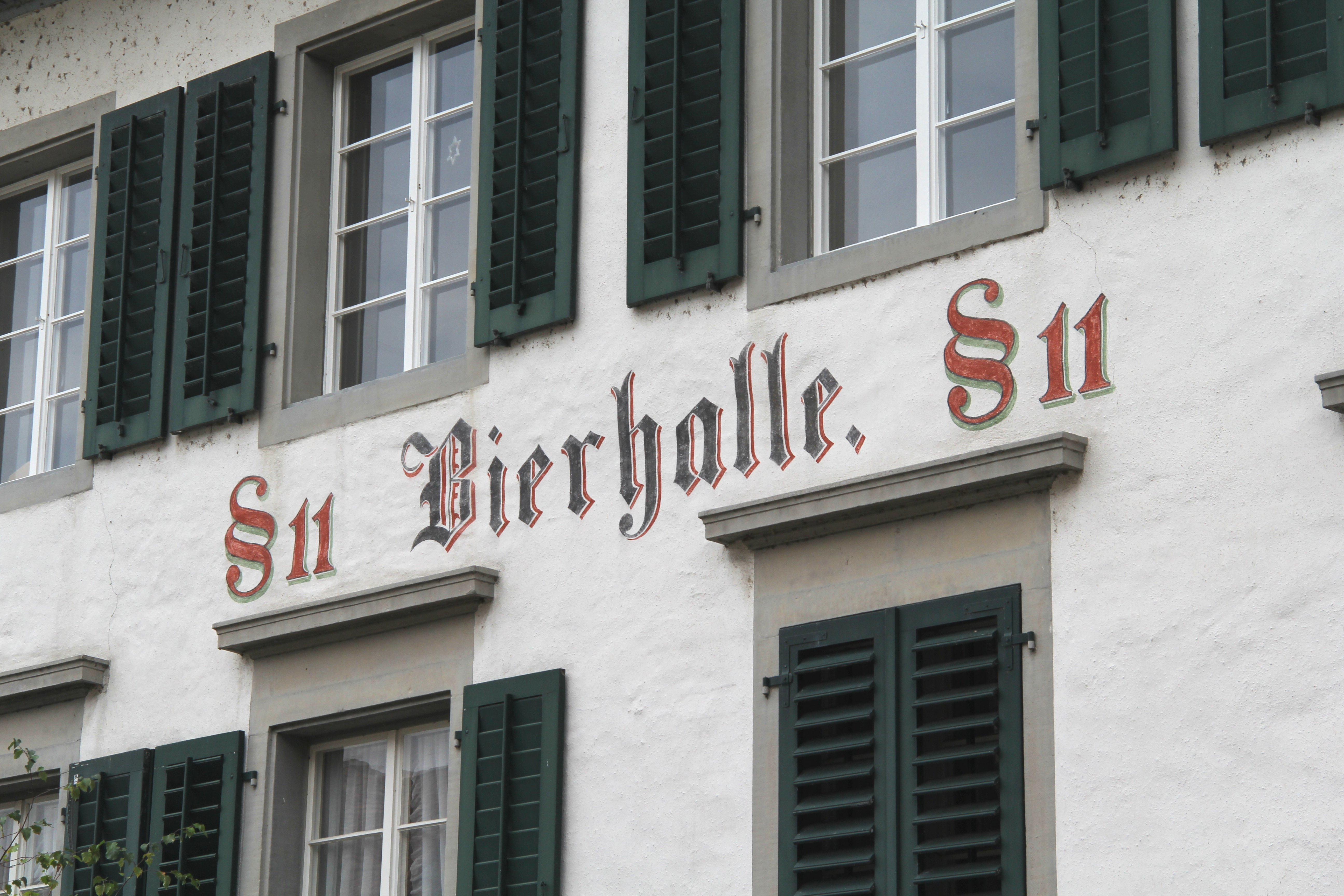 Restaurant "Bierhalle §11" in Rapperswil-Jona (Jona), Switzerland